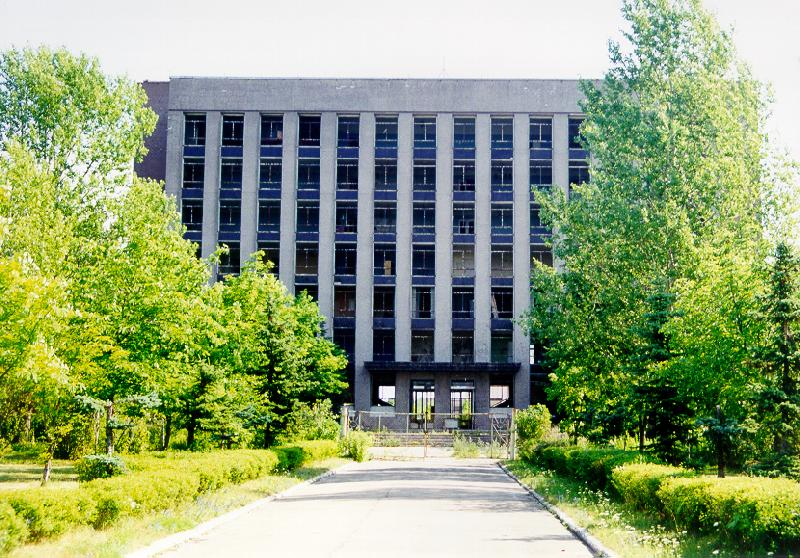 Ruins of Soviet Navy nuclear submarine training centre, Paldiski, Estonia